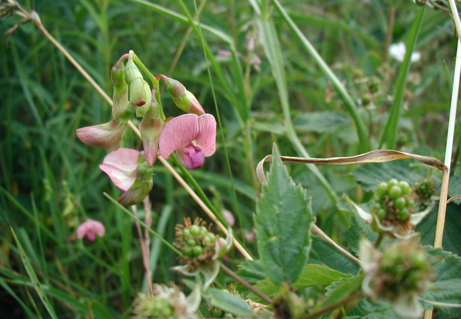 Lathyrus sylvestris in a young forest at Øer in Jutland